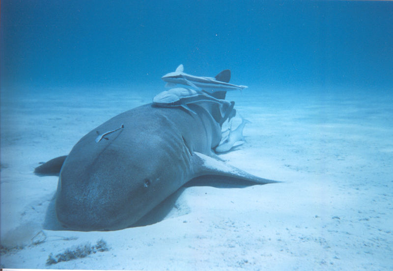 Nurse shark Ginglymostoma cirratum with remoras Remora sp. Bimini, The Bahamas.